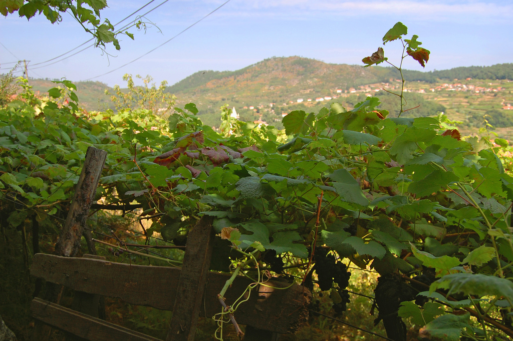 Vineyards planted in the Portuguese wine region of the Vinho Verde in the Minho.